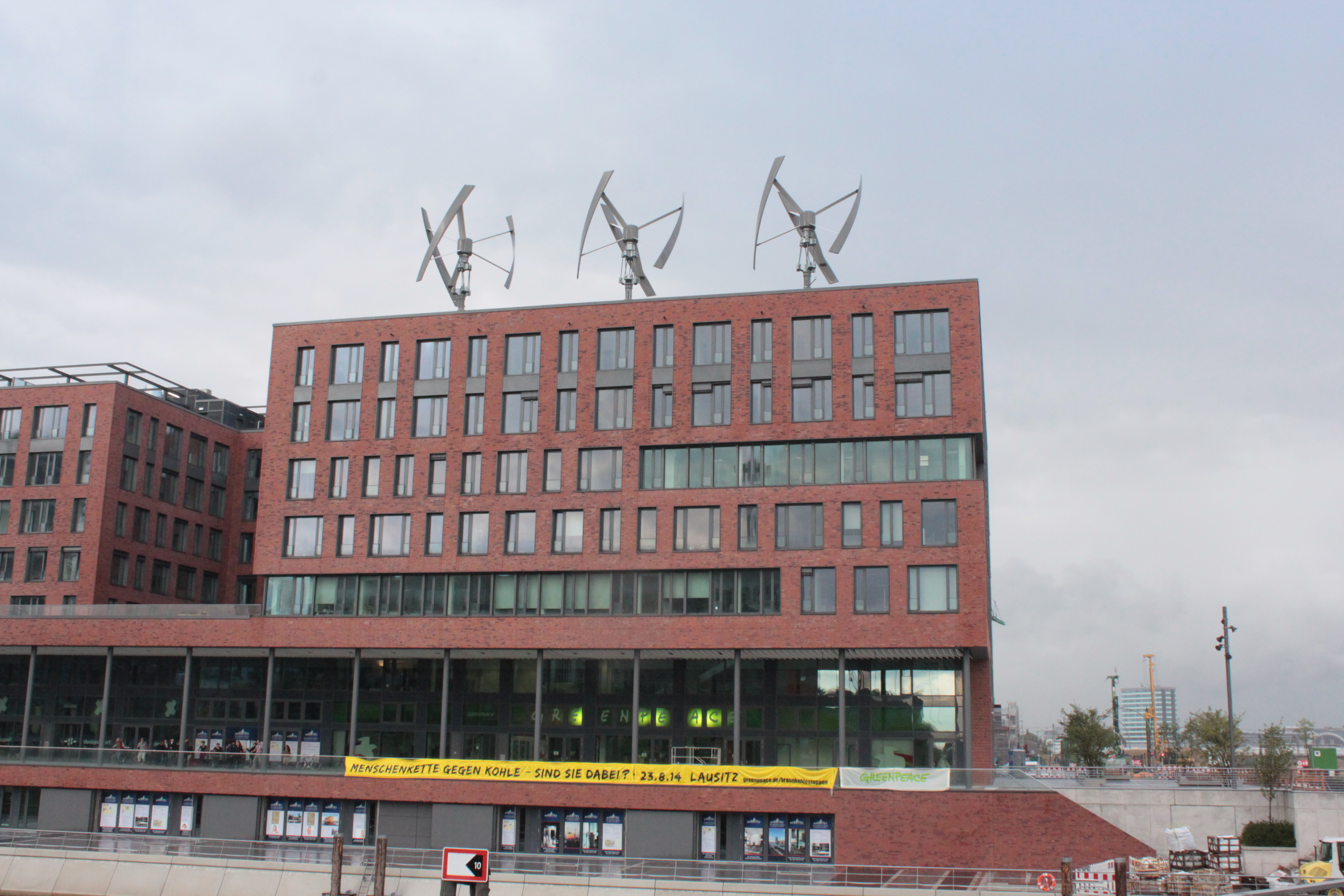 Greenpeace Germany, with location at Hamburg-HafenCity. Protest banner "Menschenkette gegen Kohle – 23. 8. 14 – Lausitz".